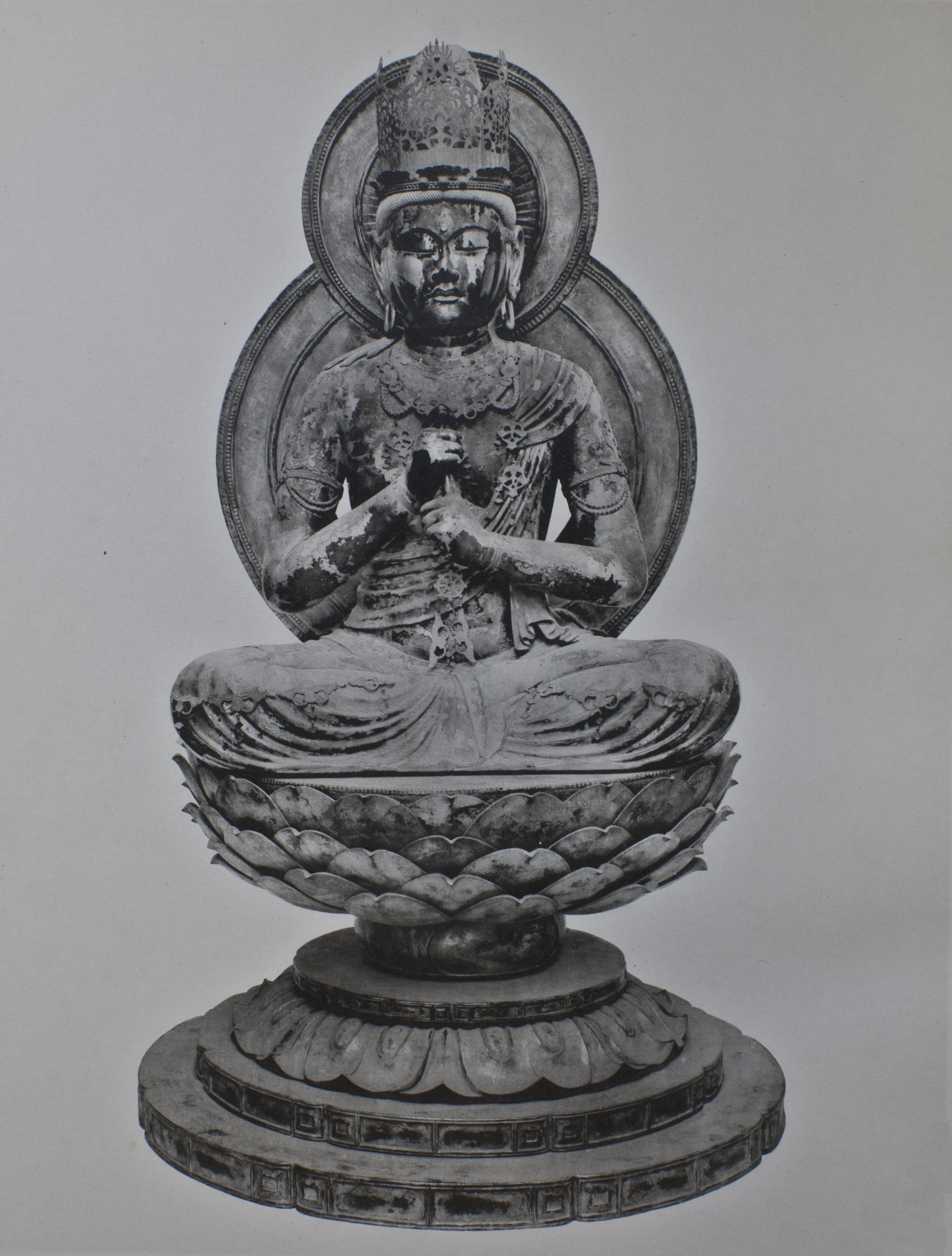 Enjoji, Nara, Japan